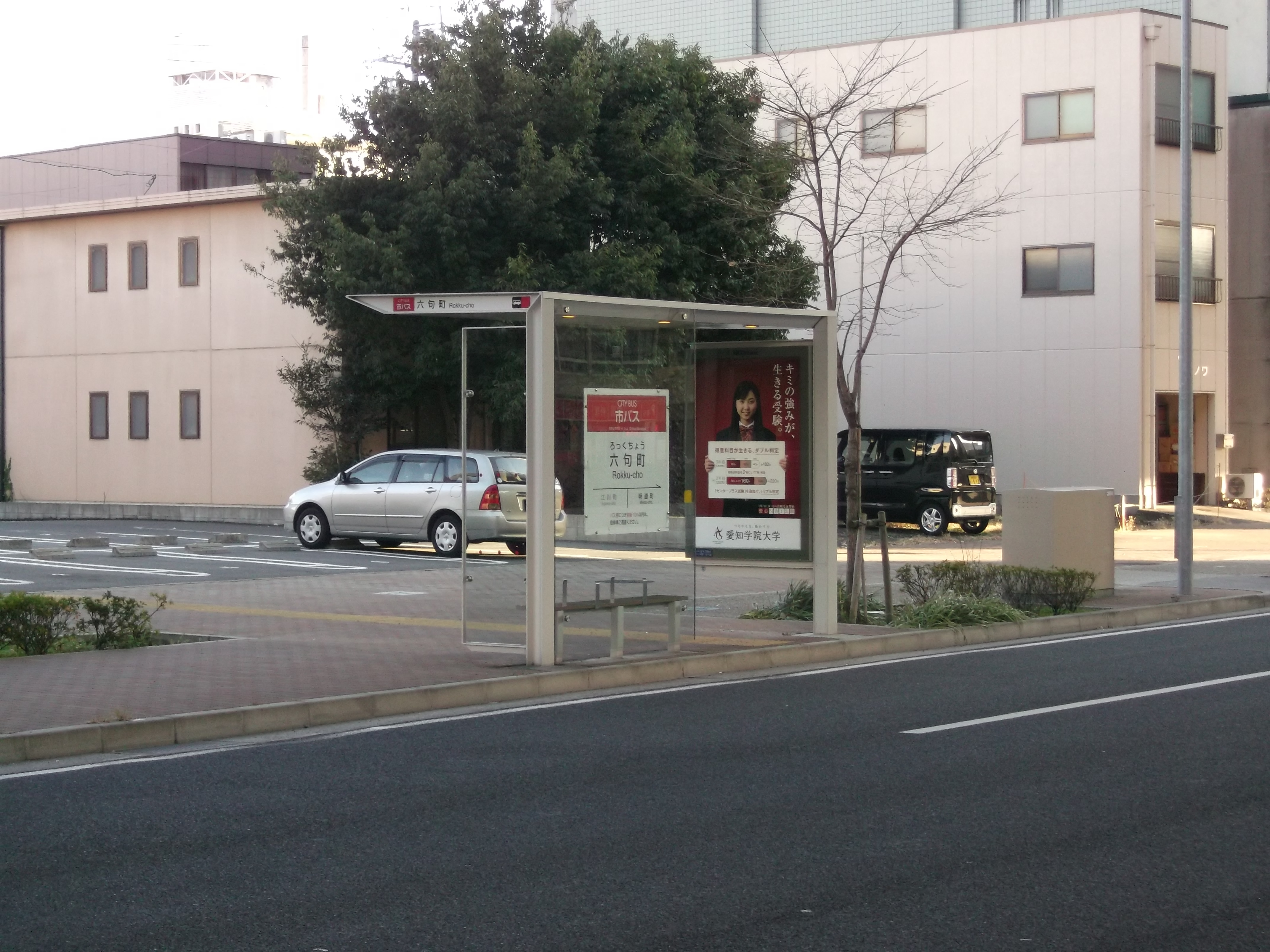 Nagoya City Bus Rokku-cho Bus Stop for the southbound lines